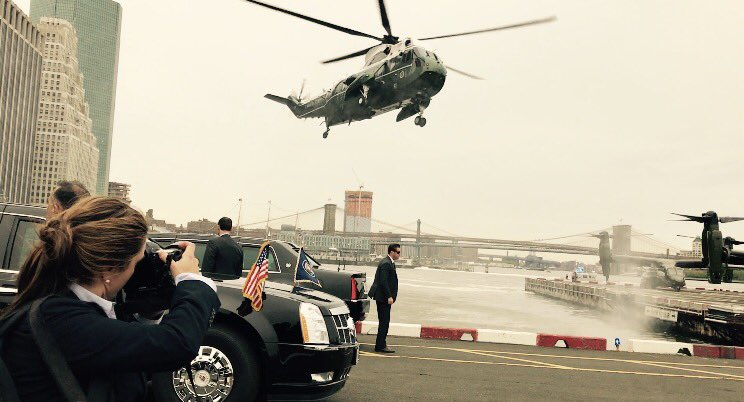 Chief Official White House Photographer Shealah Craighead takes photos of Marine One landing in New York City with Secret Service guards standing by.